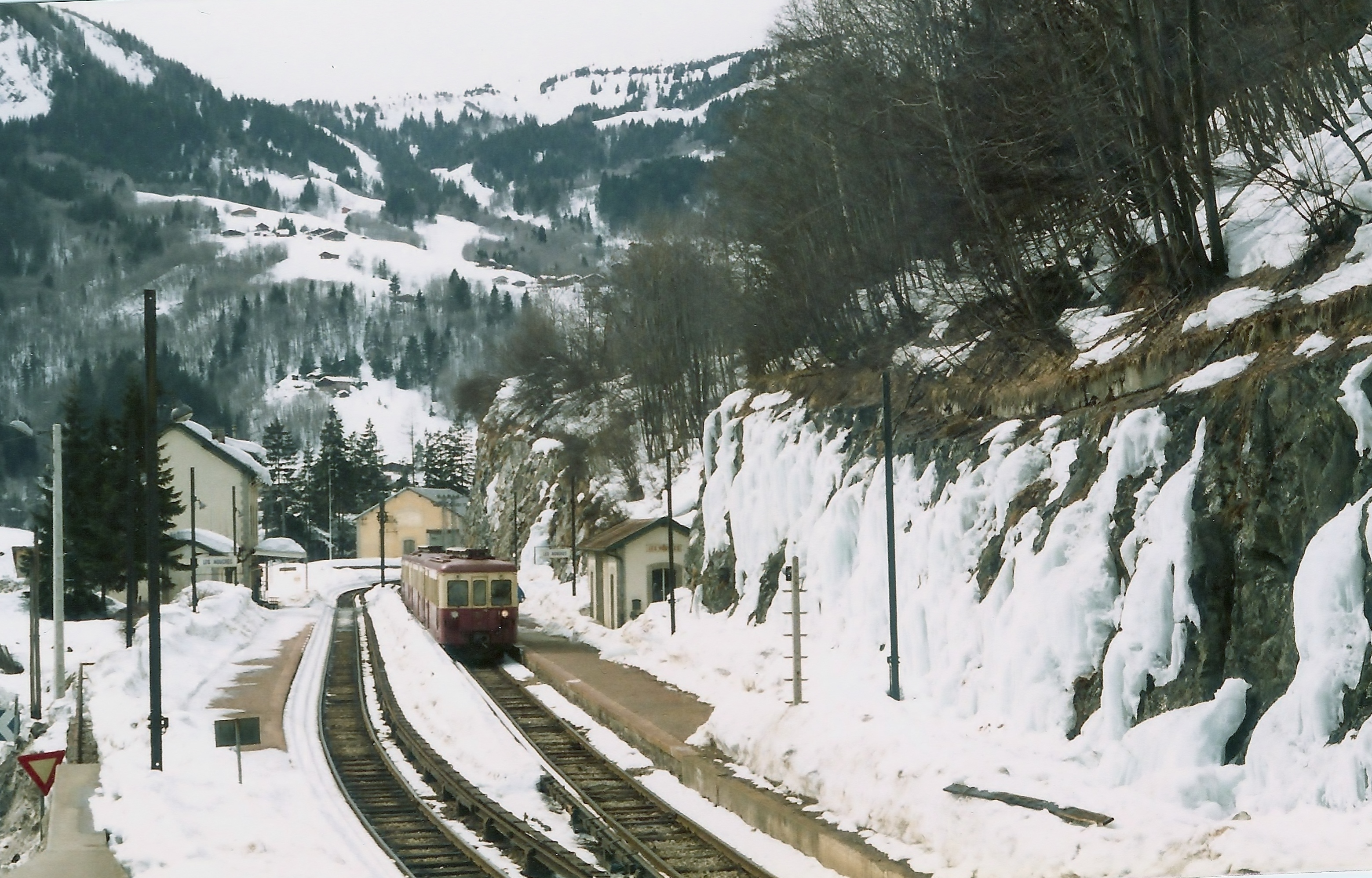 Sight of a Class SNCF Z 600 in Les Houches railway station, moving towards Chamonix in Haute-Savoie, France.